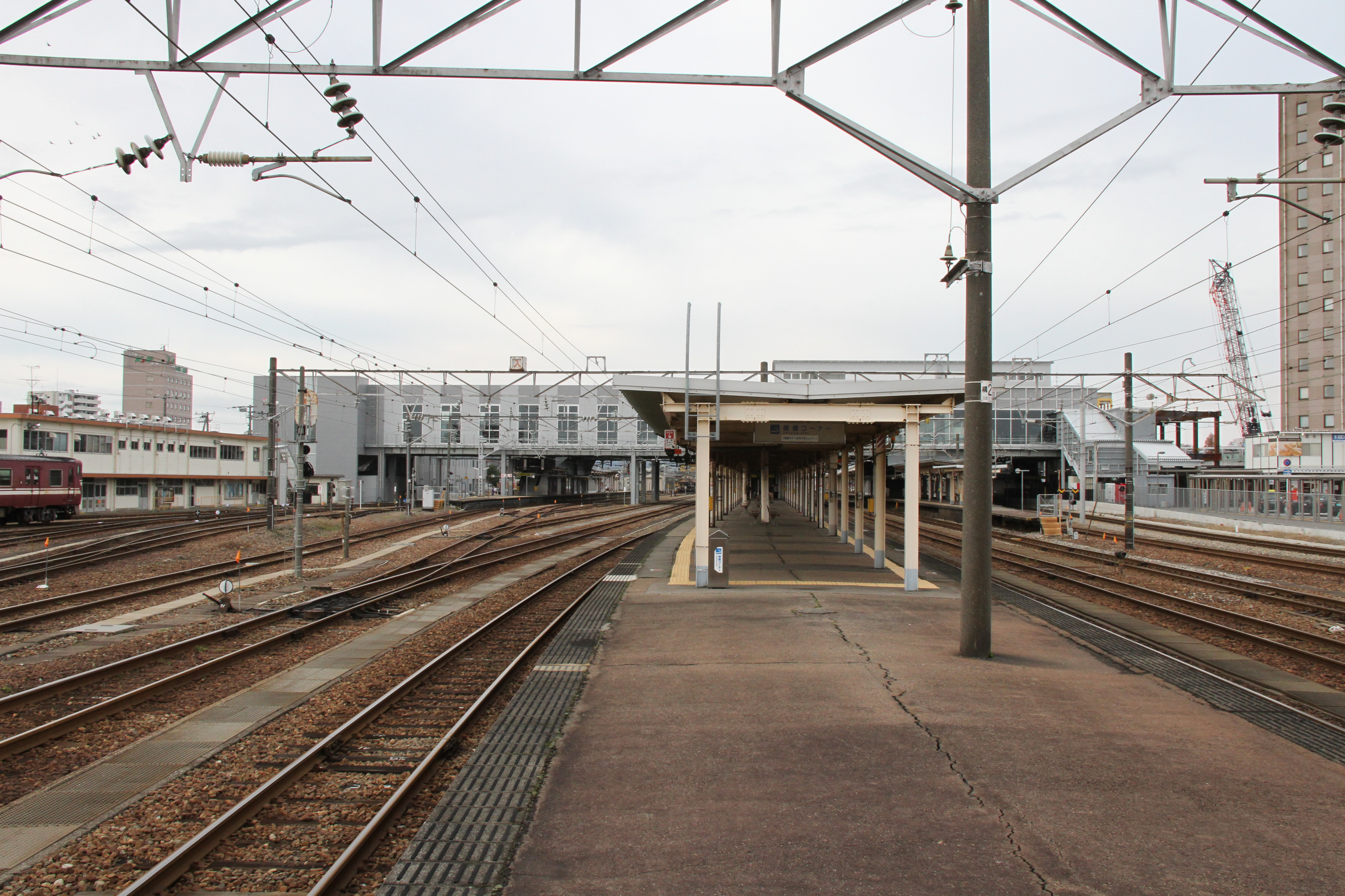 View from the Toyama (east) end of platforms 3/4 at Takaoka Station on the Hokuriku Main Line